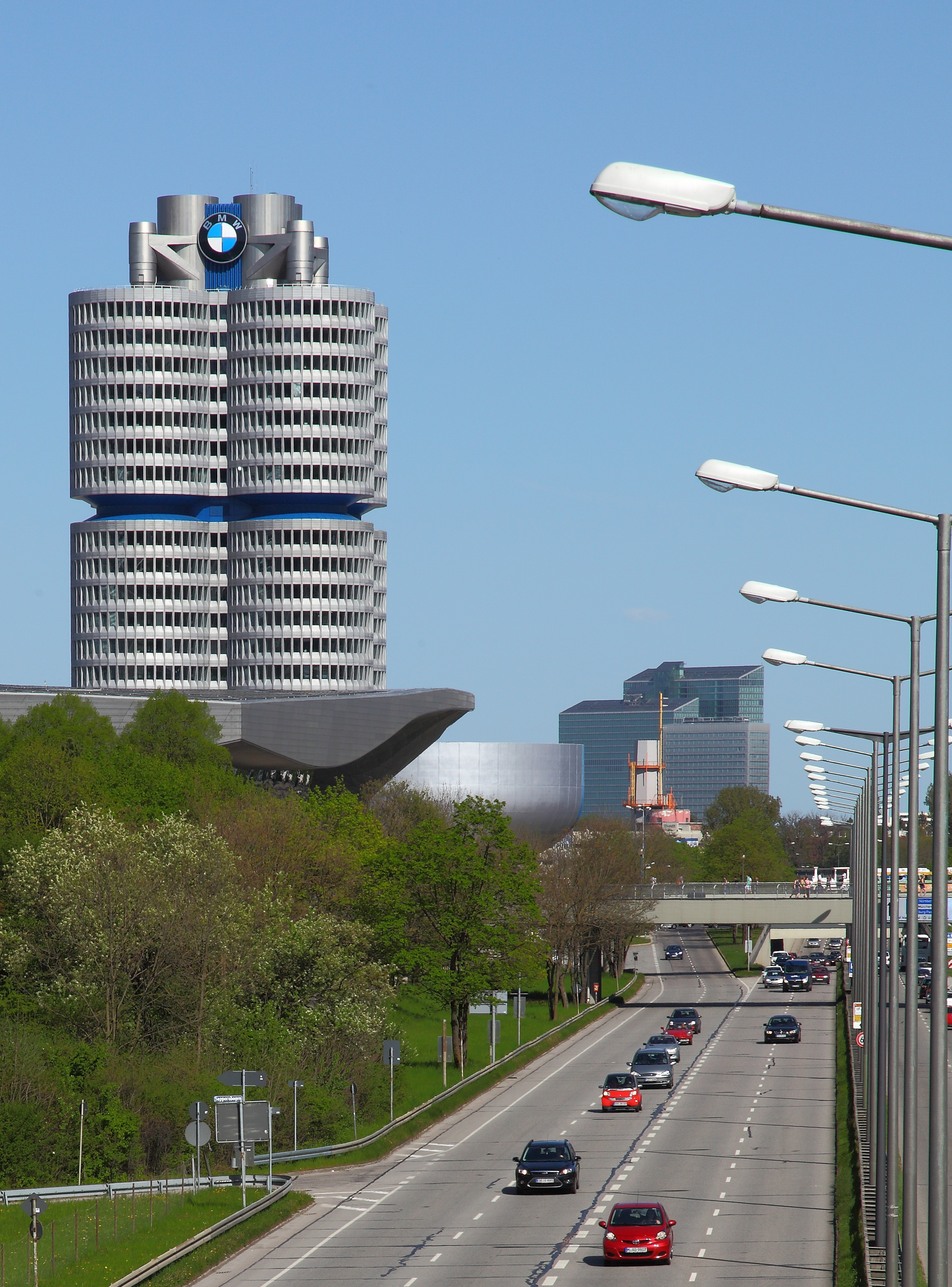 BMW Tower, Munich, Germany